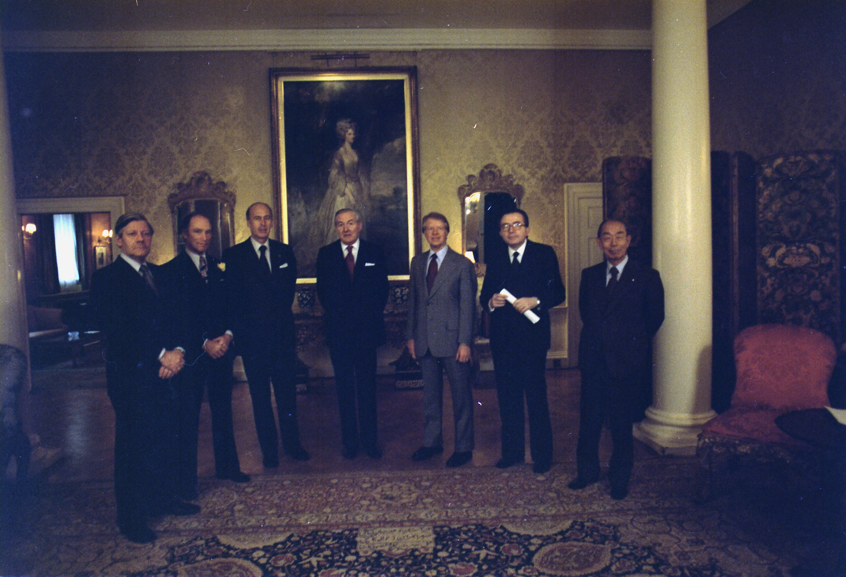 Portrait of G7 leaders: Helmut Schmidt, Pierre Trudeau, Valéry Giscard d'Estaing, James Callaghan, Jimmy Carter, Giulio Andreotti and Takeo Fukuda. 05/08/1977